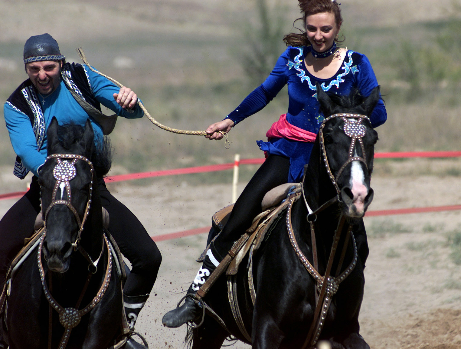 Traditional Kazakh horseback game of "Catch the Girl" (Kuuz Kuu)